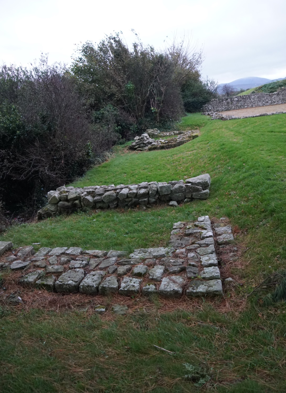 Segontium Roman Fort, Caernarfon, Wales. Remains of the north gate.